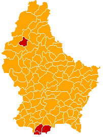 A map of the communes of Luxembourg coloured by the plurality party in the 2009 election to the Chamber of Deputies. Orange represents the Christian Social People's Party and red represents the Luxembourg Socialist Workers' Party.